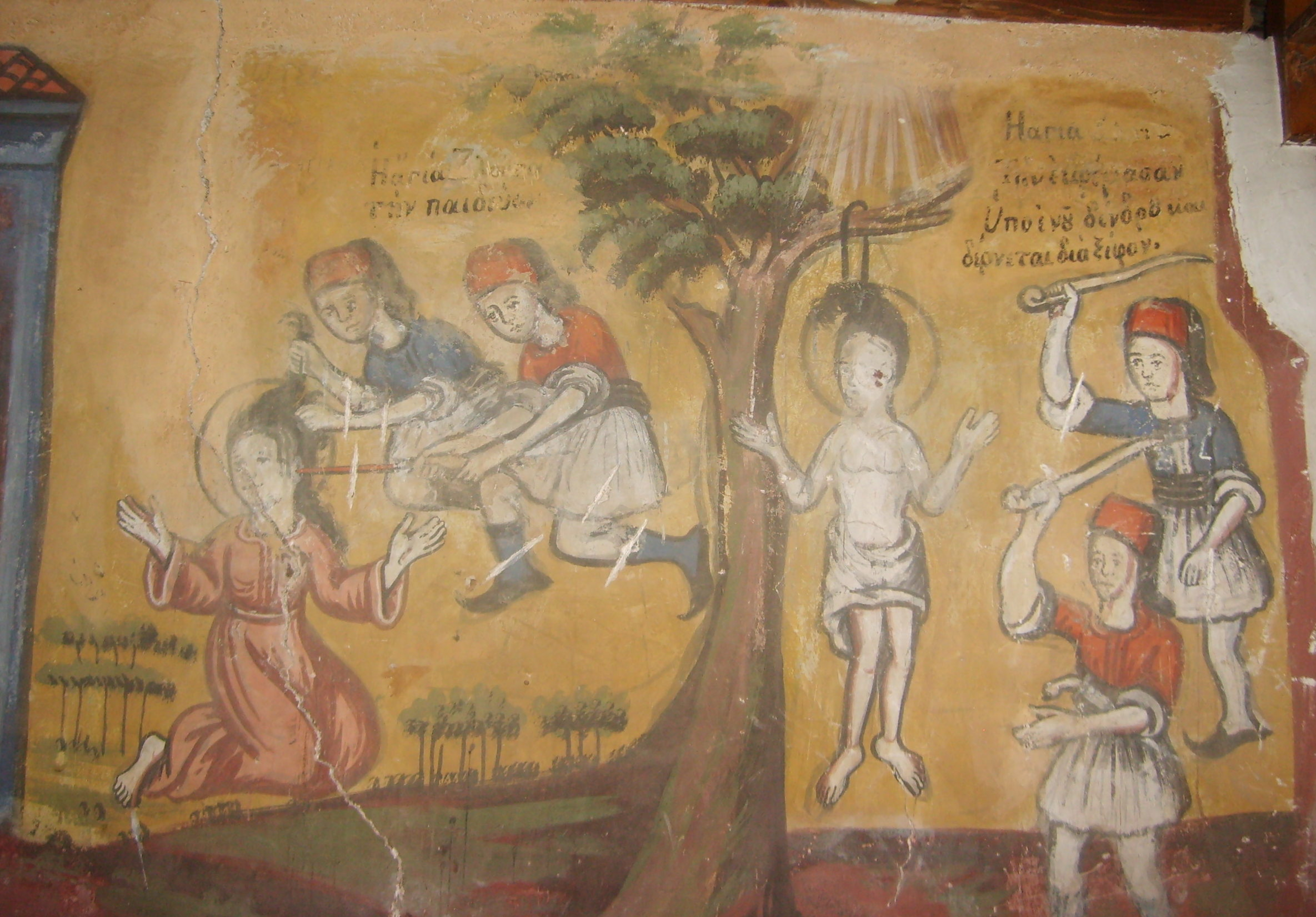 Wall painting of Saint Zlata (Chrysi), Archangelos Monastery, Almopia, Greece